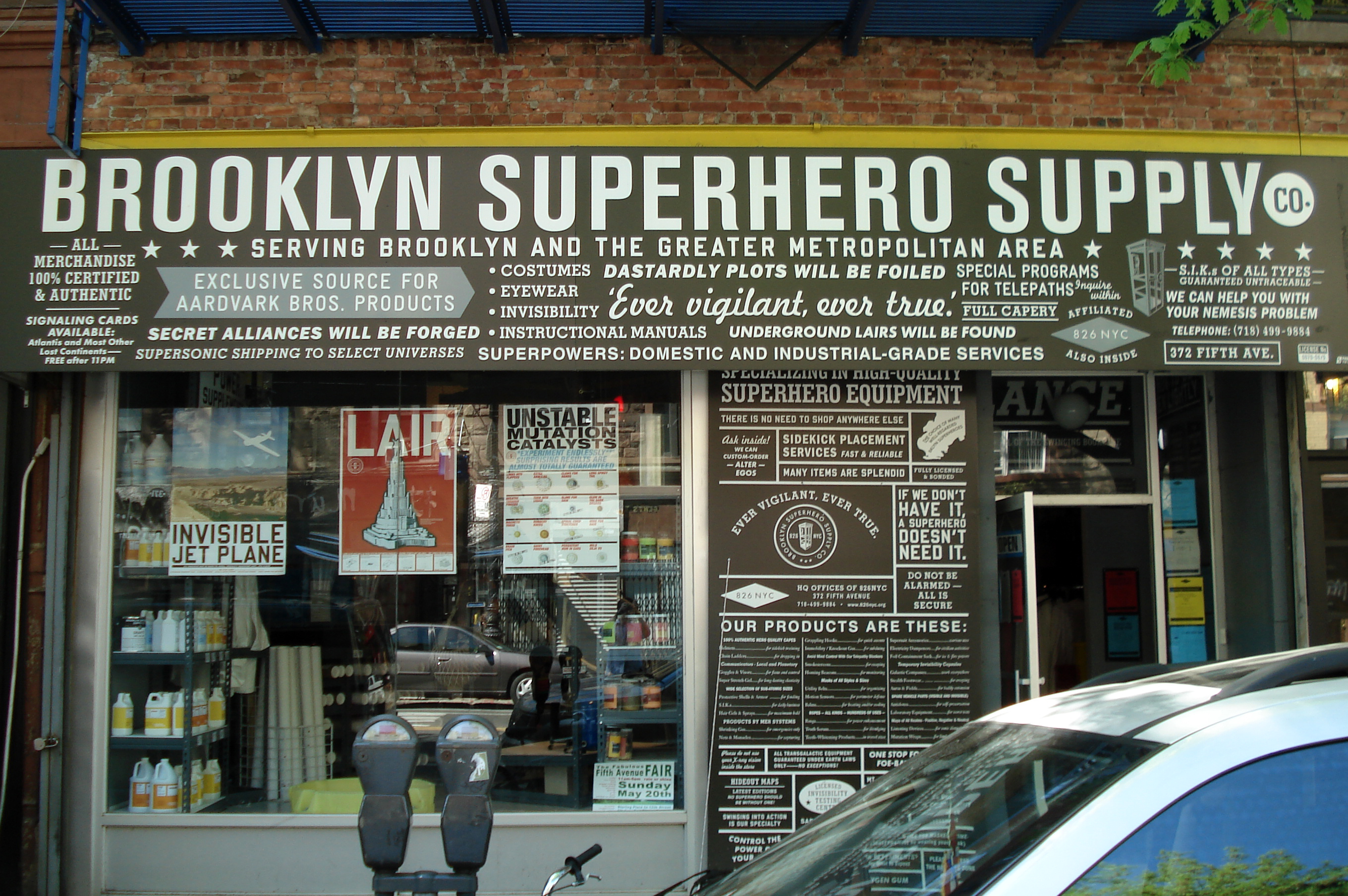 The outside of The Brooklyn Superhero Supply Company, the front for the charitable organization 826NYC, in Park Slope, Brooklyn, New York City. Copyright 2007 Jeffrey O. Gustafson, released under the GFDL and CC-BY-SA-2.0 to Wikimedia Commons.